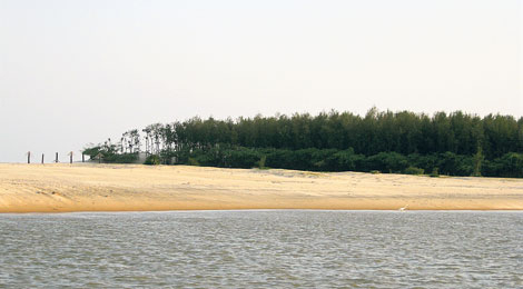 Talsari 1